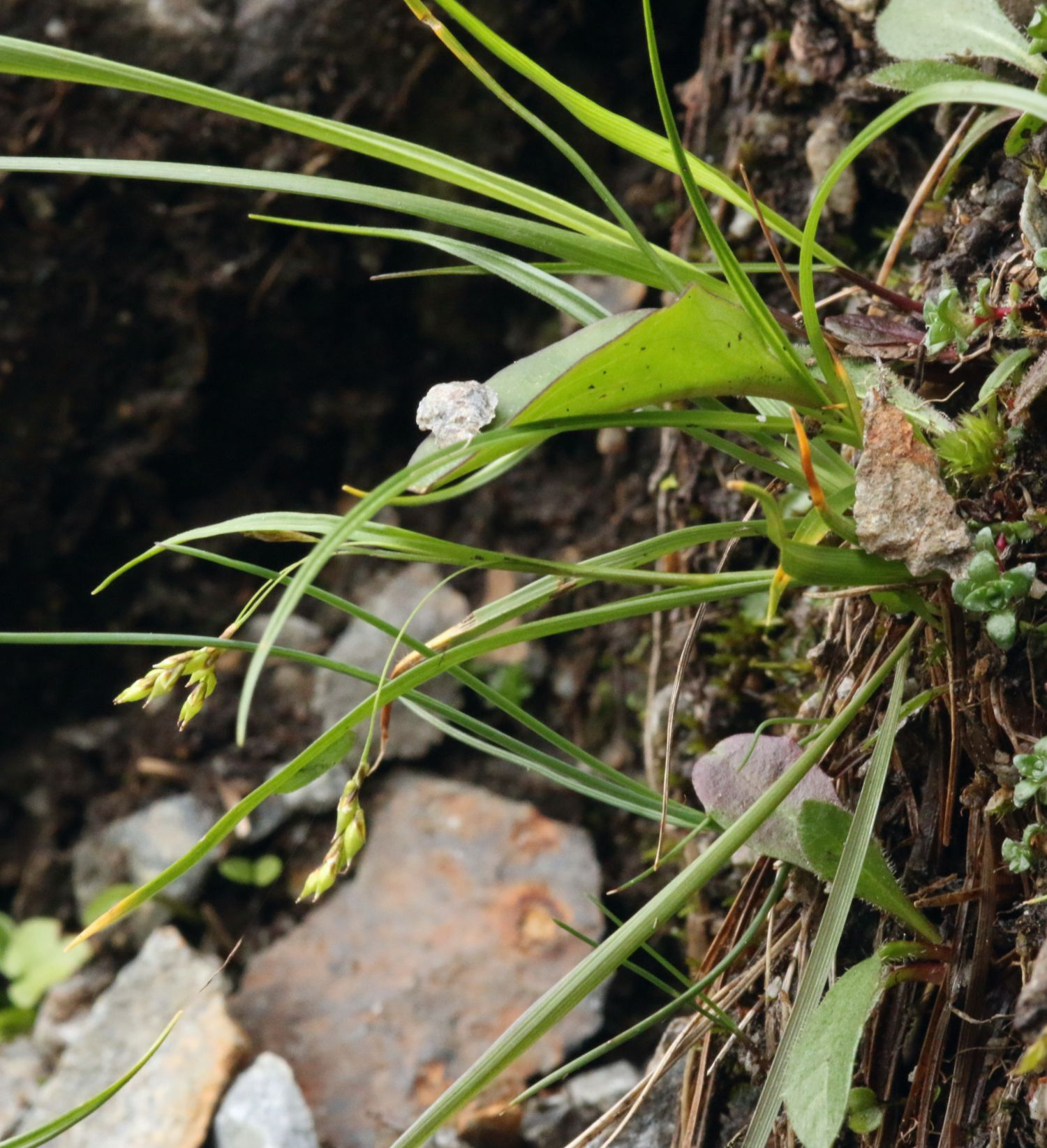 Carex capillaris in Čertova zahrádka, Krkonoše, Czech Republic